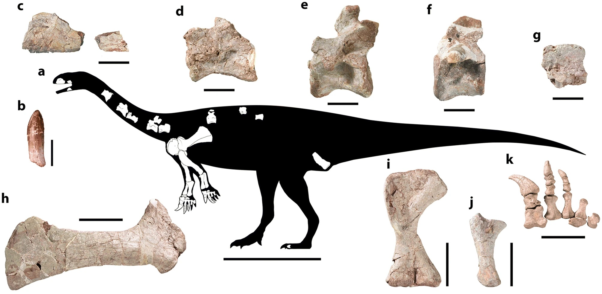 Outline of Irisosaurus yimenensis displaying the preserved material. The most informative elements are figured. (a) Outline; (b) Tooth; (c) Left maxilla; (d) Middle cervical; (e) Posterior cervical; (f) Anterior dorsal; (g) Middle dorsal neural spine; (h) Right scapula; (i) Right humerus; (j) Right ulna; (k) Right manus. Scale bars = 1 m (a); 1 cm (b); 5 cm (c–g); 10 cm (h–k).